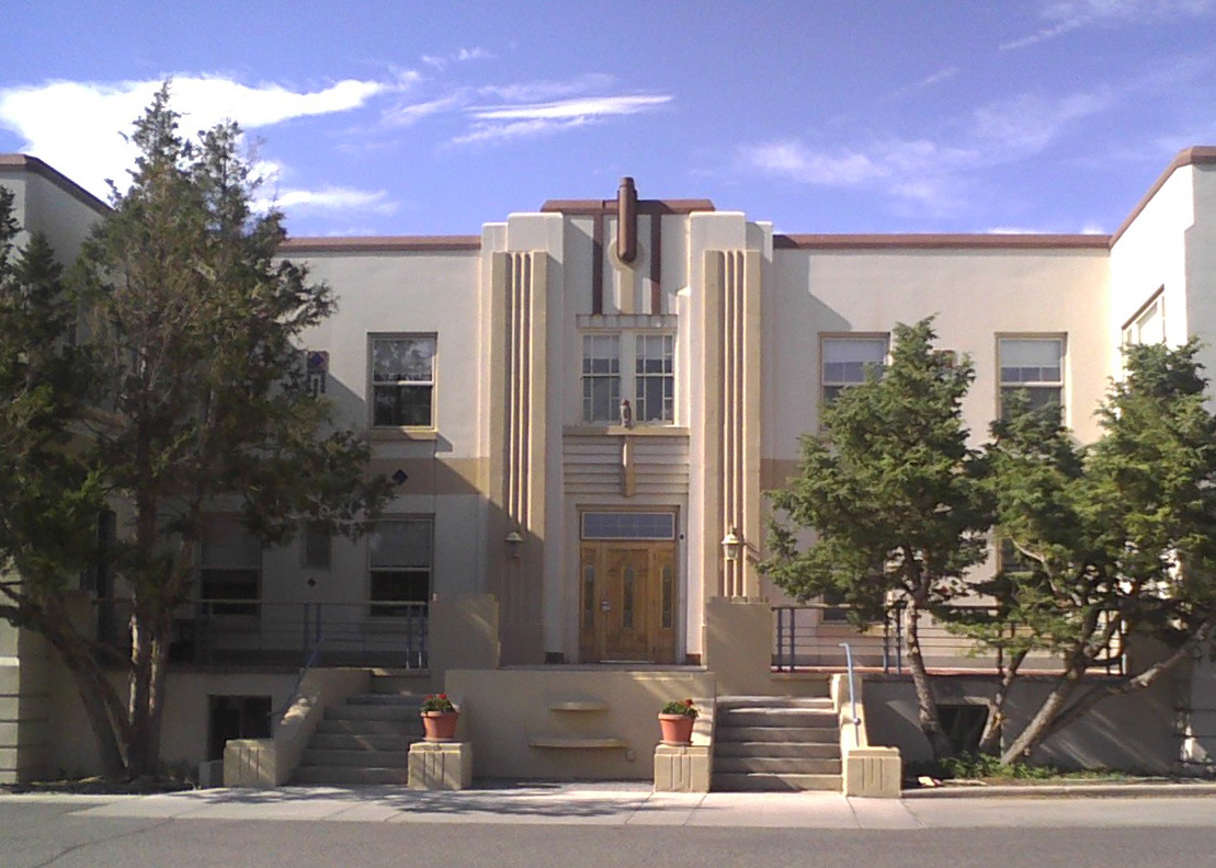 Old Cooney Hospital part of Lewis and Clark County Hospital Historic District From NRHP database: Lewis and Clark County Hospital Historic District (added 2002 - - #02001101) Also known as Poor Farm;Old Cooney House 3404 Cooney Dr. , Helena, MT Historic Significance: Event, Architecture/Engineering Architect, builder, or engineer: Haire, C.S., et al. Architectural Style: Art Deco, Moderne Area of Significance: Social History, Architecture, Health/Medicine Period of Significance: 1950-1974, 1925-1949, 1900-1924, 1875-1899 Owner: Private Historic Function: Health Care Historic Sub-function: Hospital, Sanatorium Current Function: Commerce/Trade Current Sub-function: Business